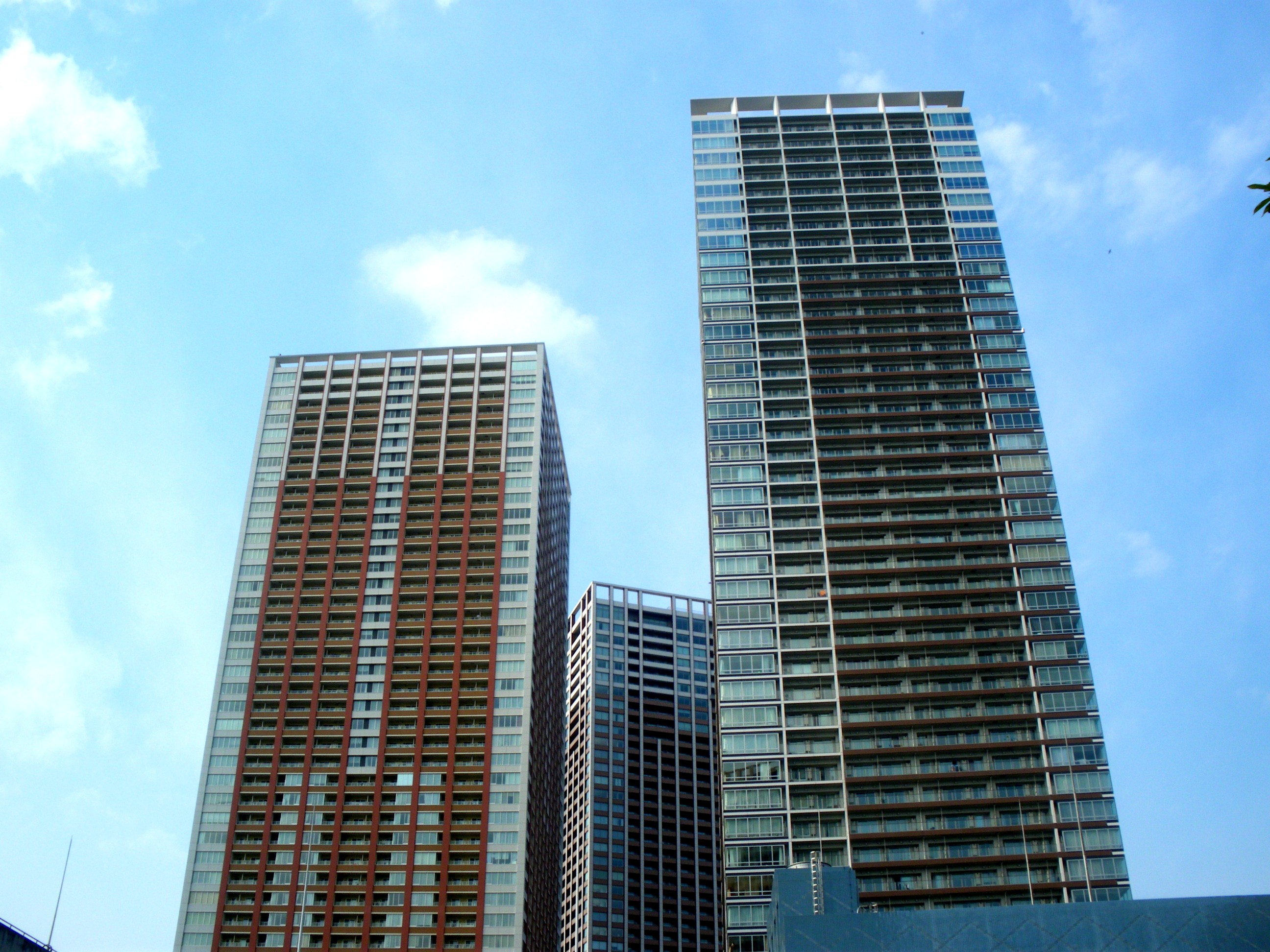 A photo of an overview Shibaura Island(high-rise apartments in Tokyo.),Shibaura,Minato-ku,Tokyo,Japan.